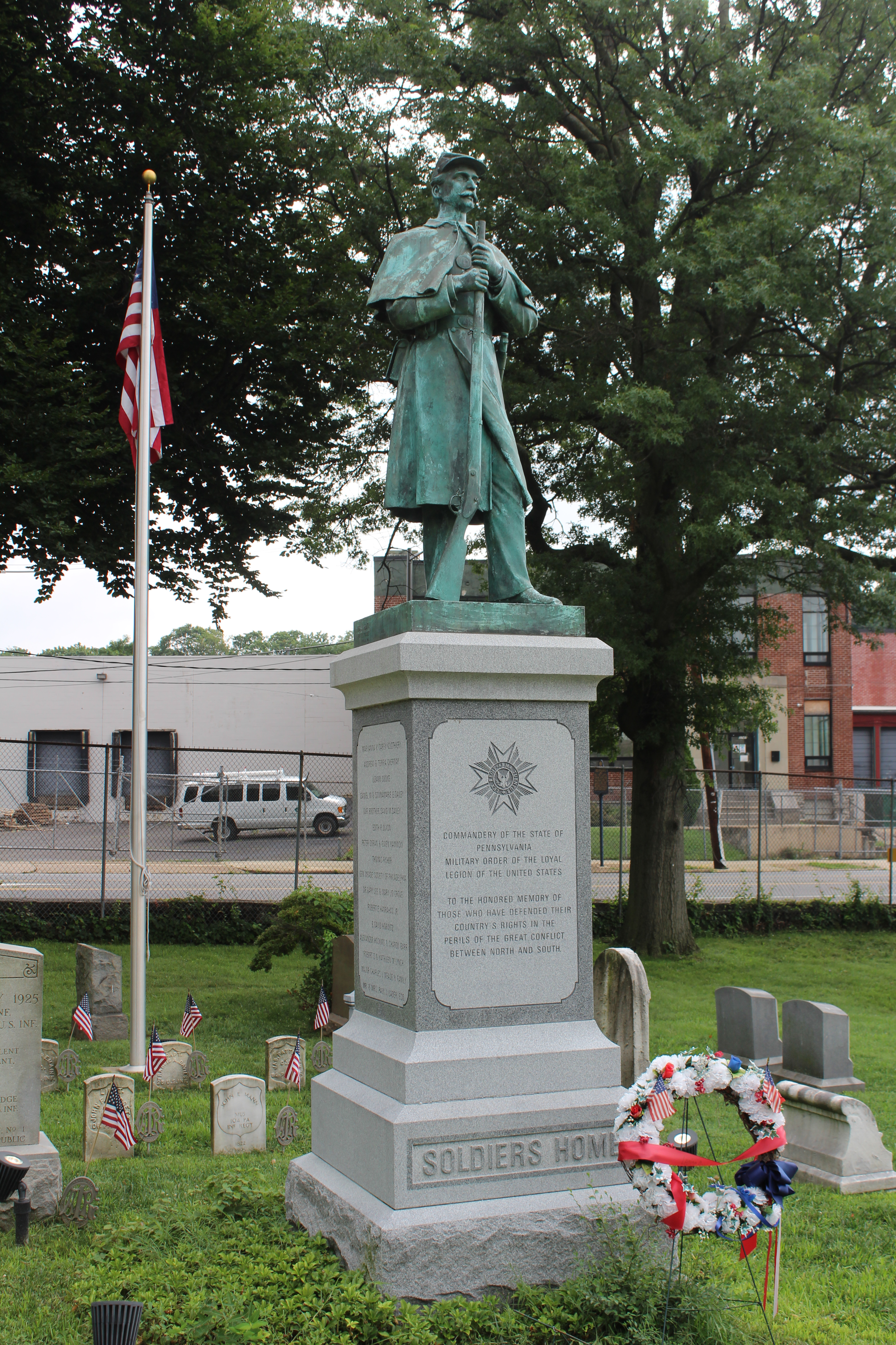 Soldiers Home Memorial in Laurel Hill Cemetery. Photo taken July 2020.